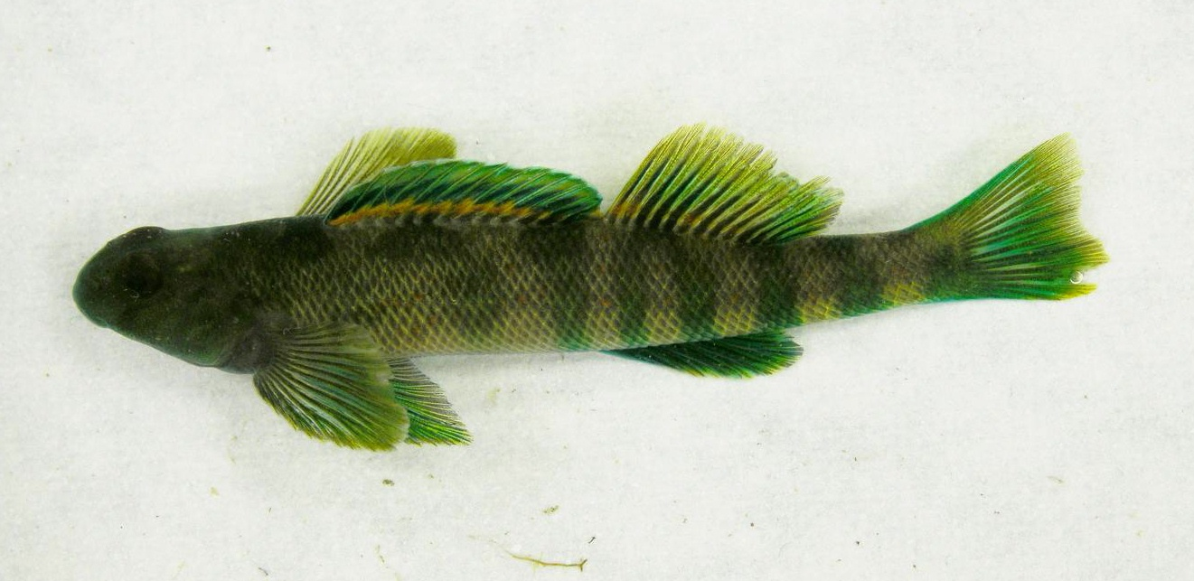 Male greenside darter (Etheostoma blennioides) in breeding coloration, from Jordan Creek, Illinois.